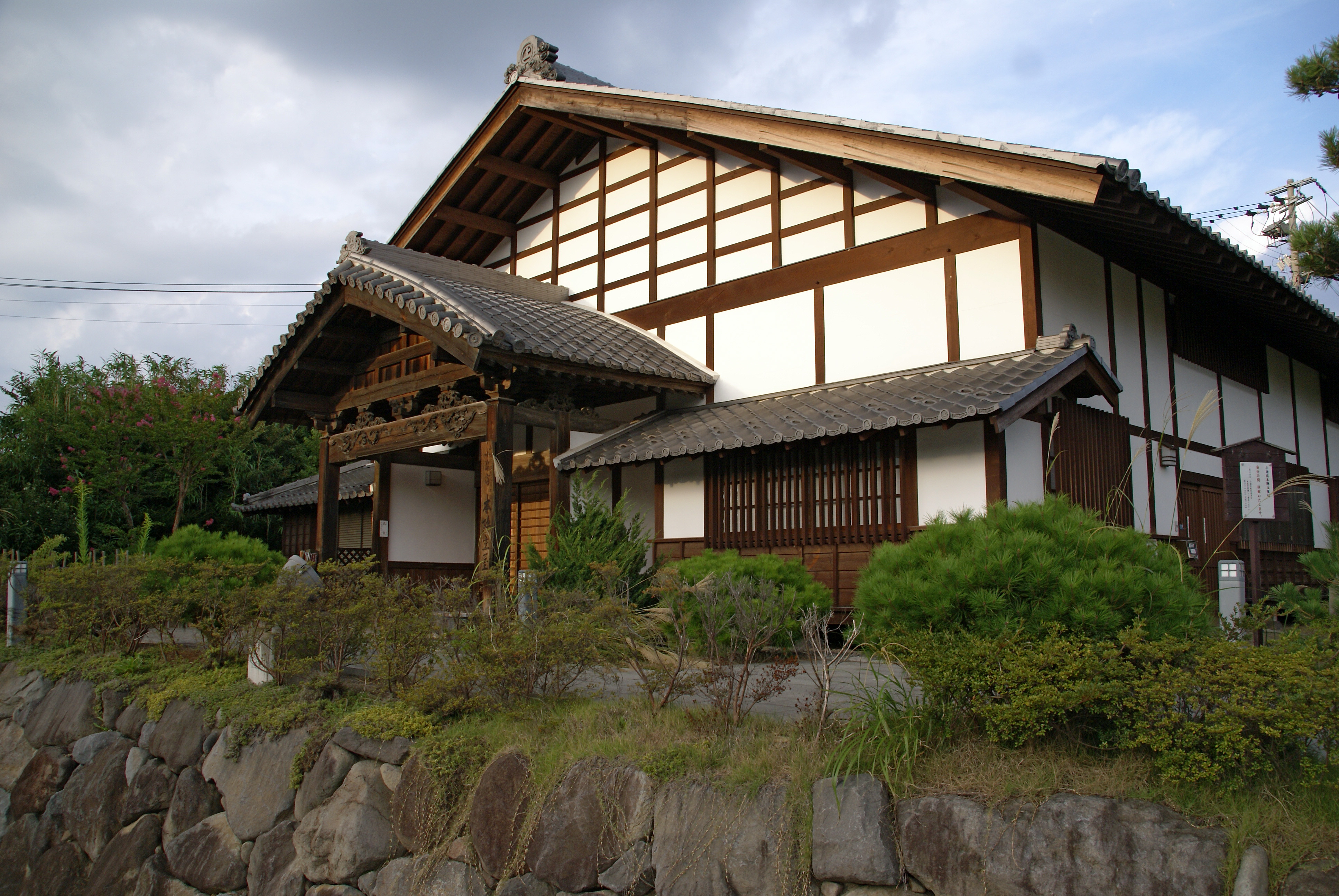 Old Komoro-honjin Omoya in Komoro, Nagano prefecture, Japan